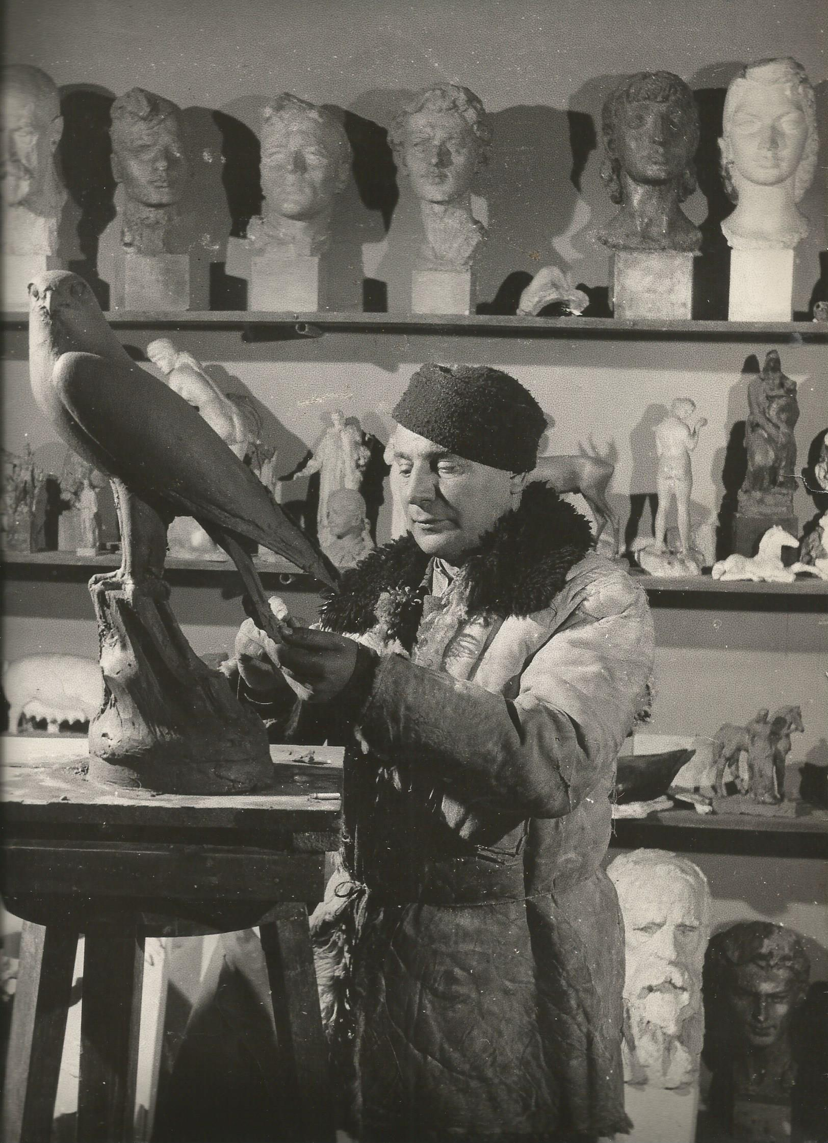 Art by Antonín Kalvoda, Czech academic sculptor (1907–1974)